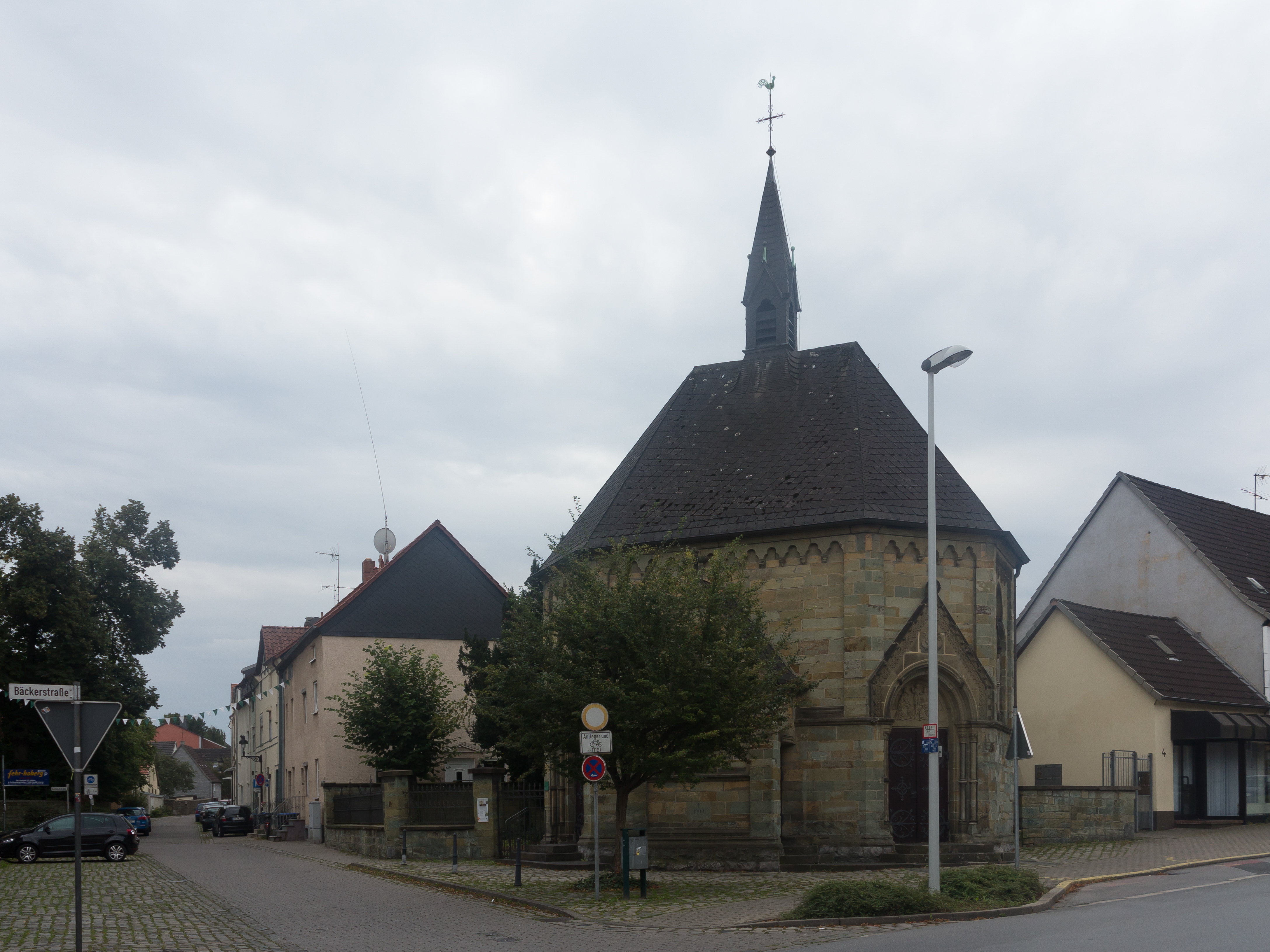 Werl, chapel: Kapelle Mutter Gottes in der Not This is a photograph of an architectural monument., no. 89